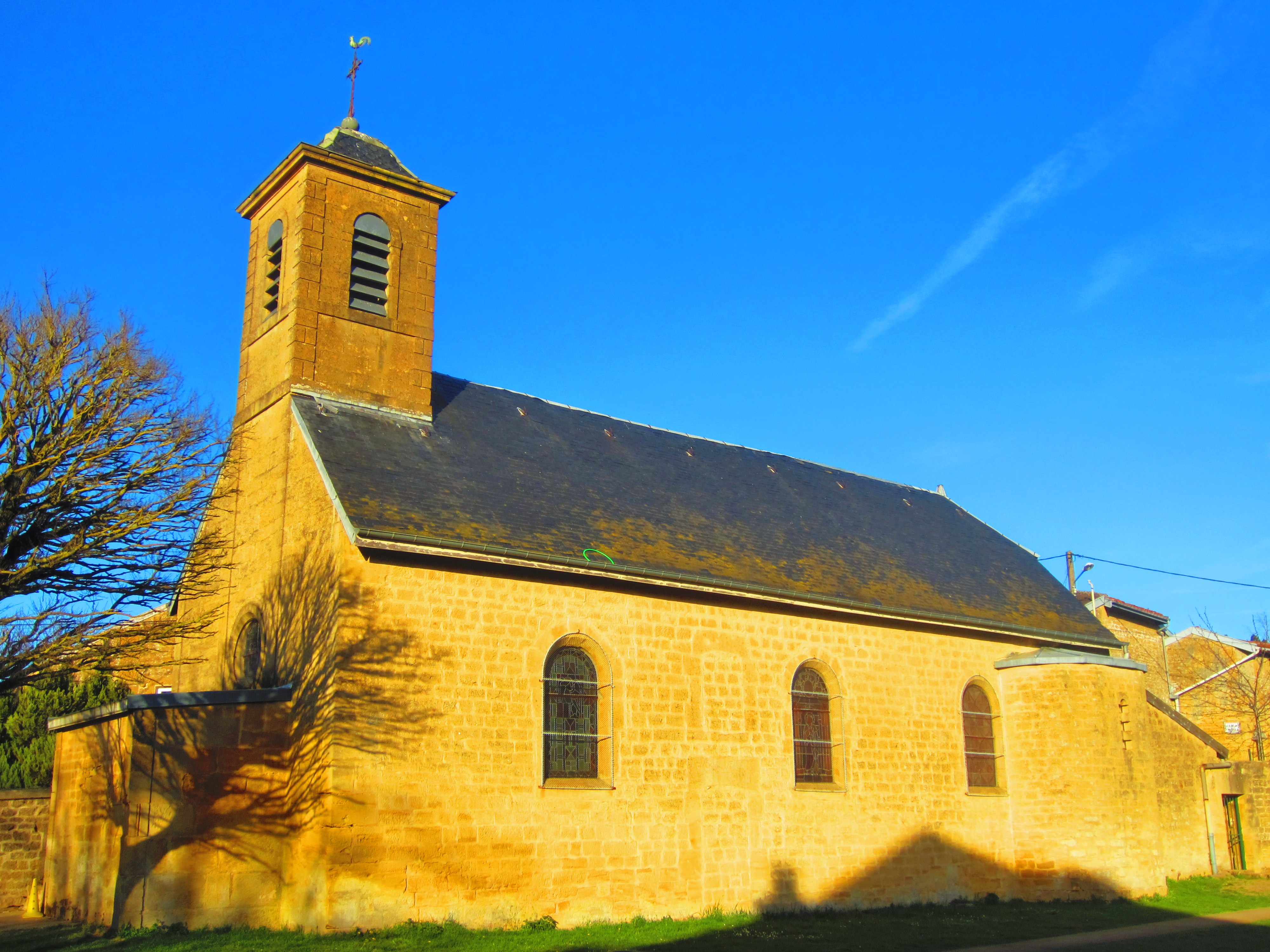 St Jean Longuyon church